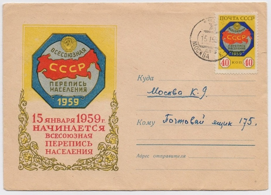 USSR 1959 Moscow first day cancel on 40k stamp, 15 January 1959, depicting the start of census of the USSR. The letter was sent to a Moscow post office box 175. Catalogue: Mi. 2183, Sc. 2157, SG. 2294, CPA 2267.